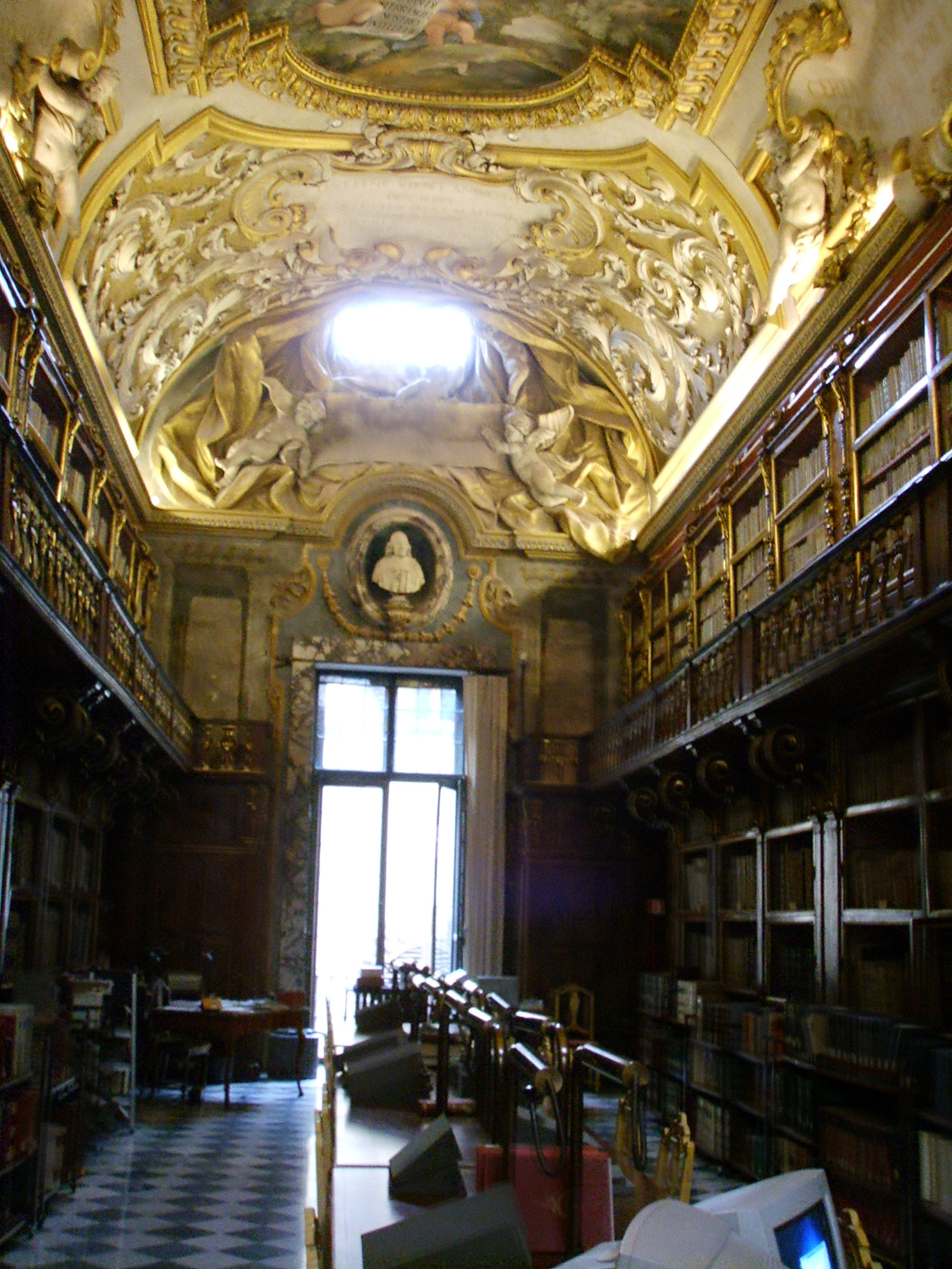 Biblioteca Riccardiana in Florence.